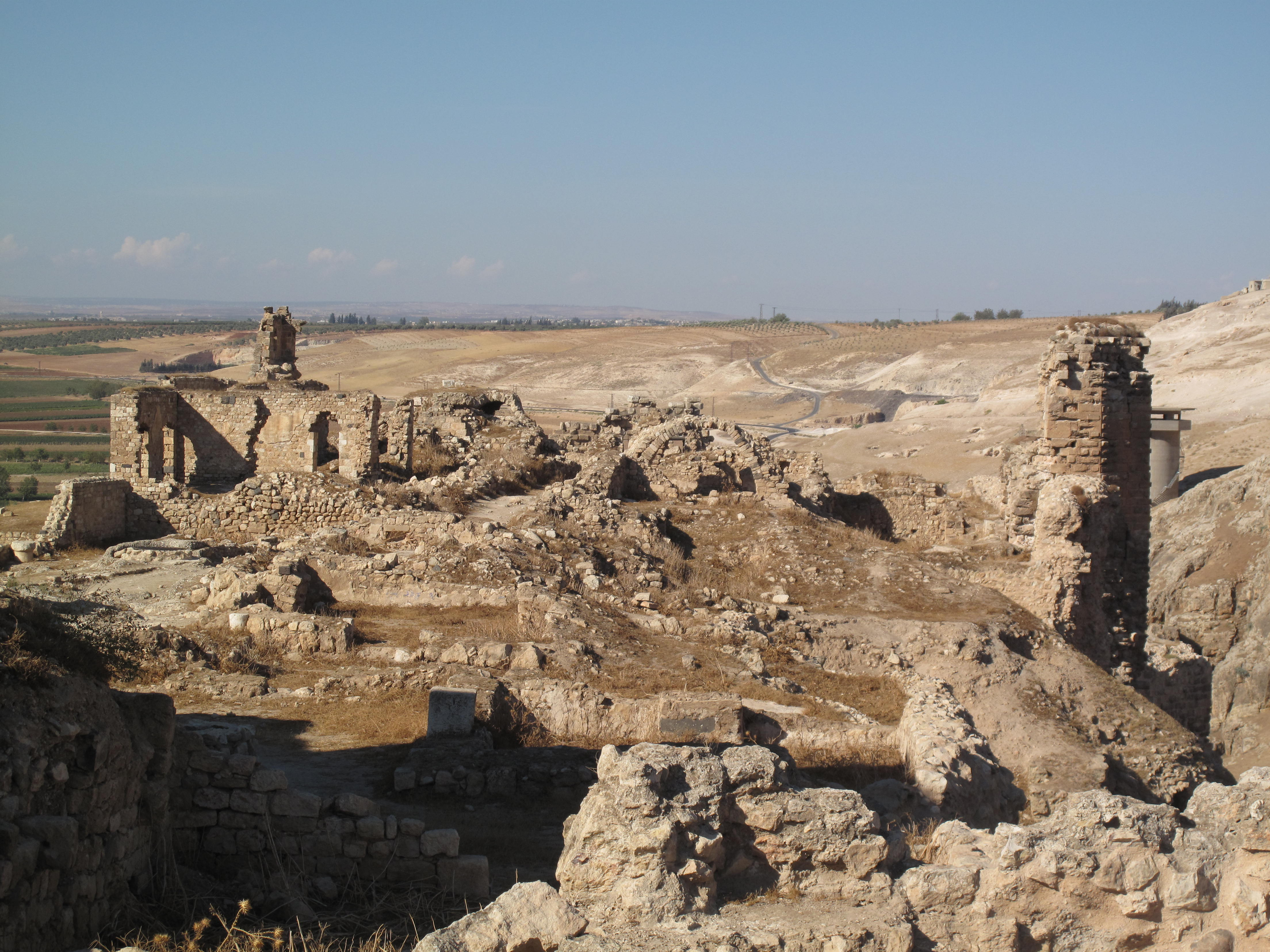 Citadel of Shayzar: Northern part of the complex, seen from the south; in the background the major route from Al-Suqaylabiyah towards Hama